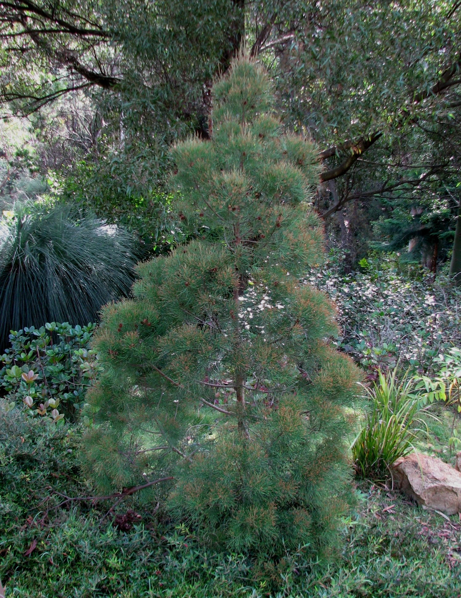 Gymnostoma australianum (cultivated, labelled), Australian National Botanic Gardens, Canberra, Australia